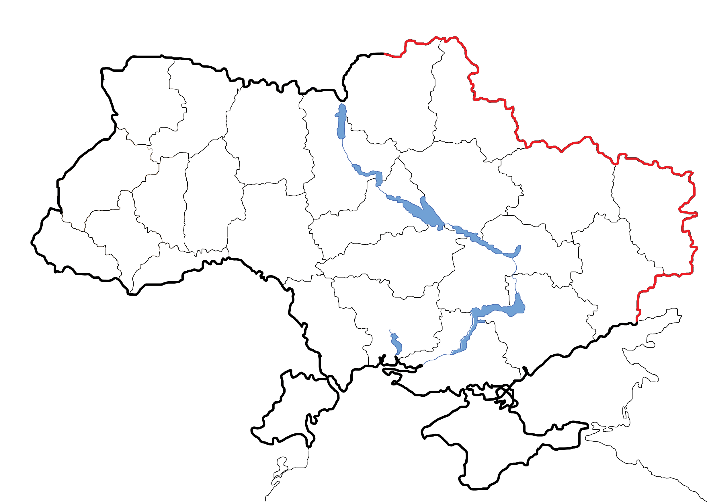 Section of the State Border of Ukraine that borders Russian Federation